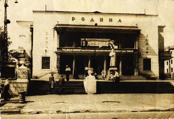 Cinema "Rodina" (Barnaul)